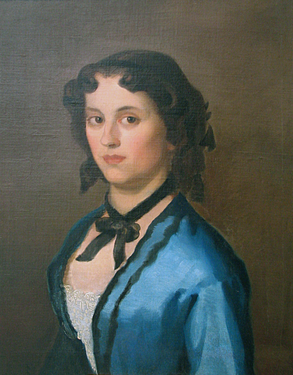 Đura Jakšić, The Girl in Blue, 1856, National Museum of Serbia